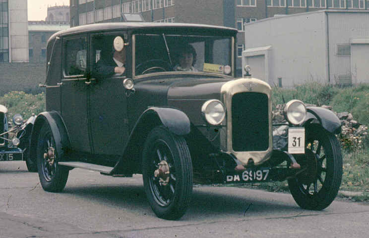 Austin Heavy 12 coupe (c1928 model) This car is a Fabric Saloon body by Morgan & Company Leighton Buzzard. This is the only known Morgan body on an Austin chassis. This Car is still running and currently lives in Buckinghamshire. Photographed by myself in Manchester in about 1976. Copied from fading transparency.